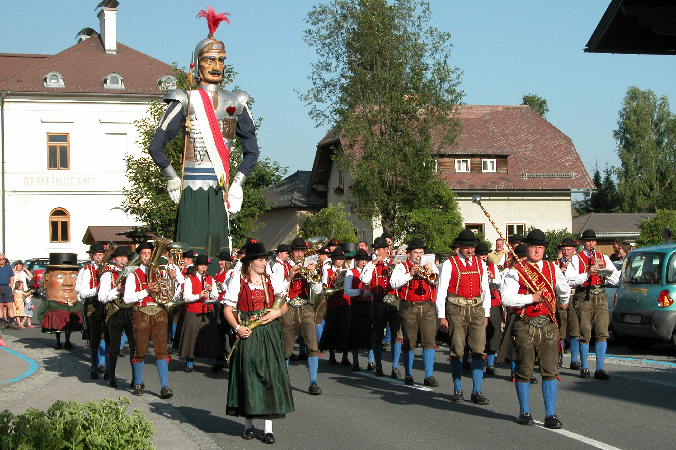 Giant Samson from Mariapfarr